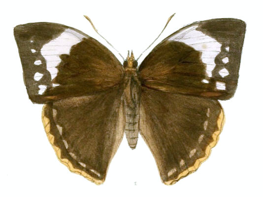 Enispe cycnus